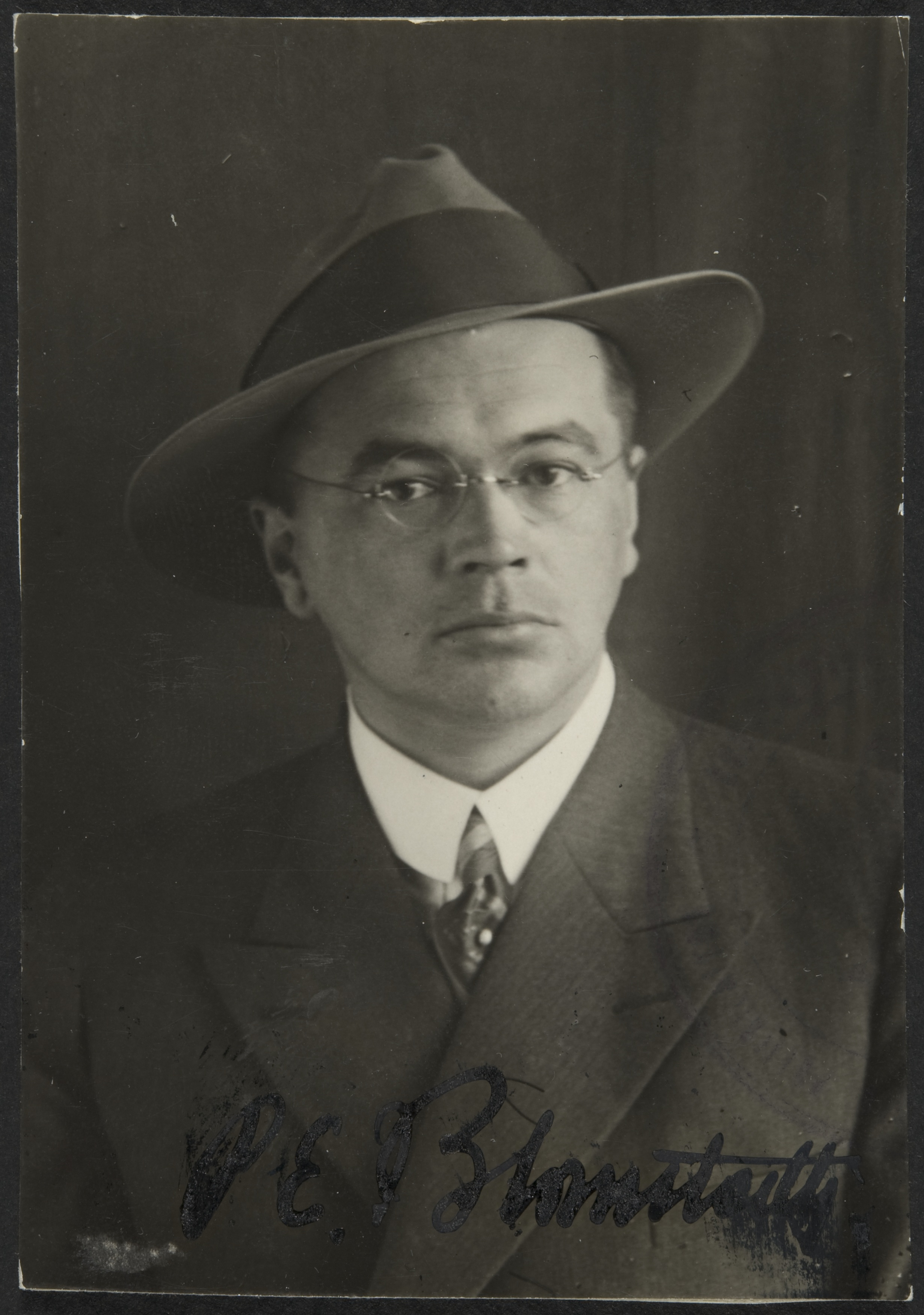 Photograph of the Finnish architect Pauli Ernesti Blomstedt (1900–1935).